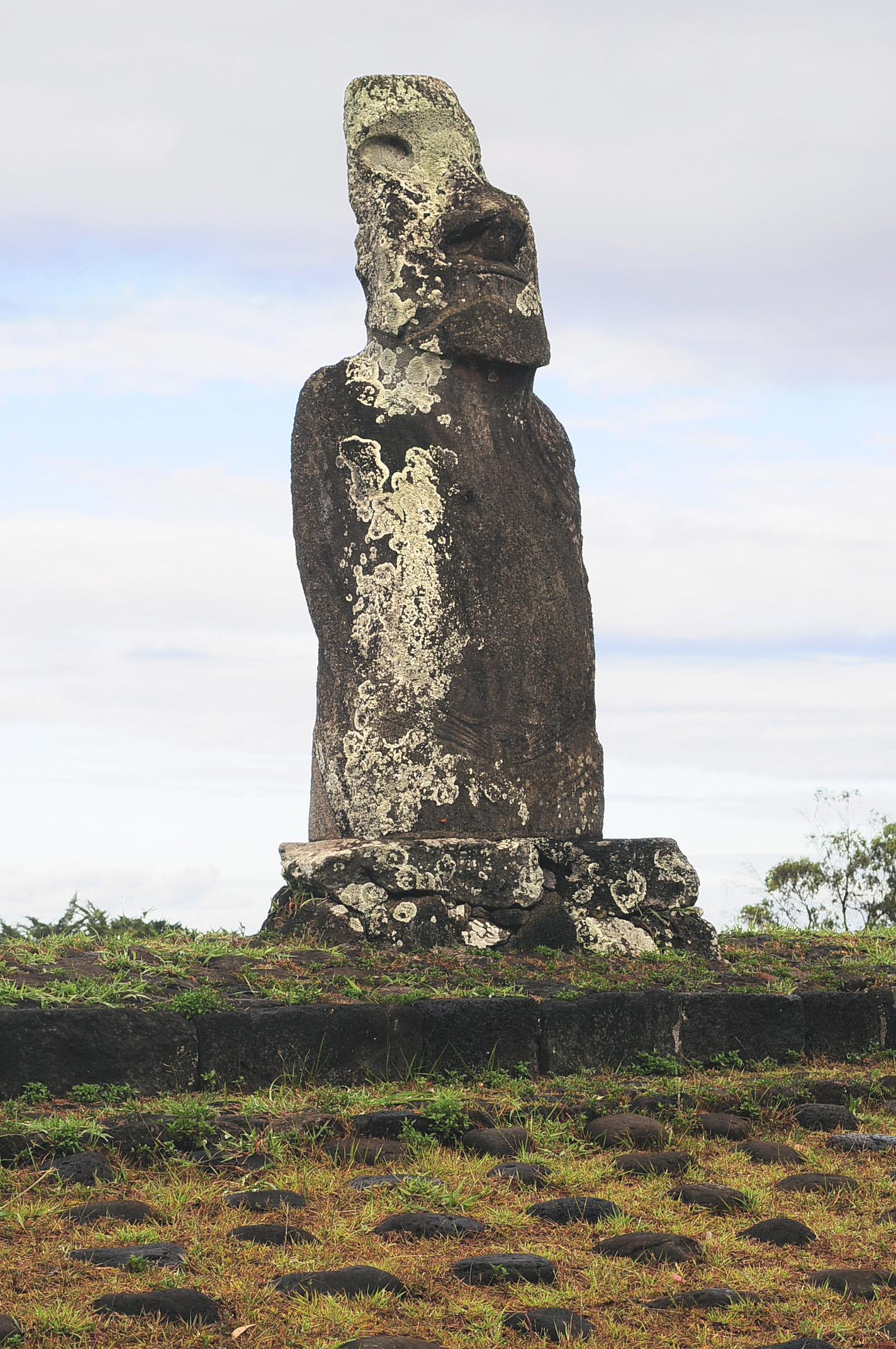 A moai at Ahu Huri. Easter Island [Rapa Nui], Valparaíso, Chile